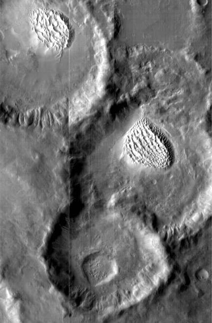 Matara crater (right of center) on Mars. Other craters are unnamed as of June 2020. Bright hills are dune fields. THEMIS mosaic of infrared images acquired February, March, and April 2015 (I58336002EDR, I58935003EDR, I59247002EDR).